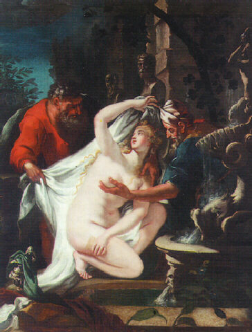 Susanna and the Elders